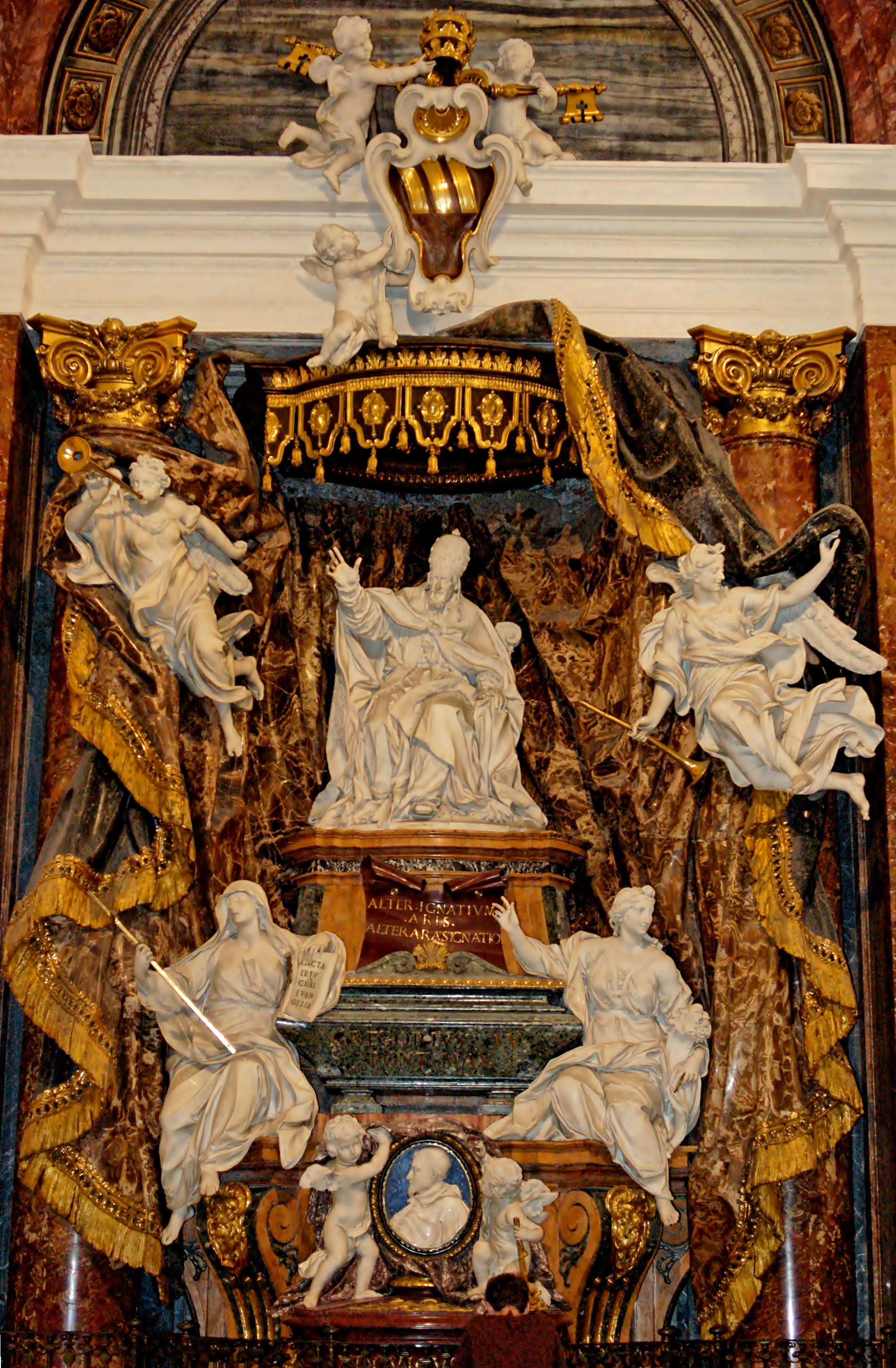 Tomb of Pope Gregory XV Ludovisi and of his nephew Ludovico Ludovisi, by Pierre Legros the Younger (1709-1714). Sant'Ignazio, Rome, Italy.